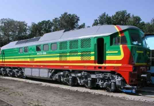 Polish Private Railway PTK - Locomotive type BR232.